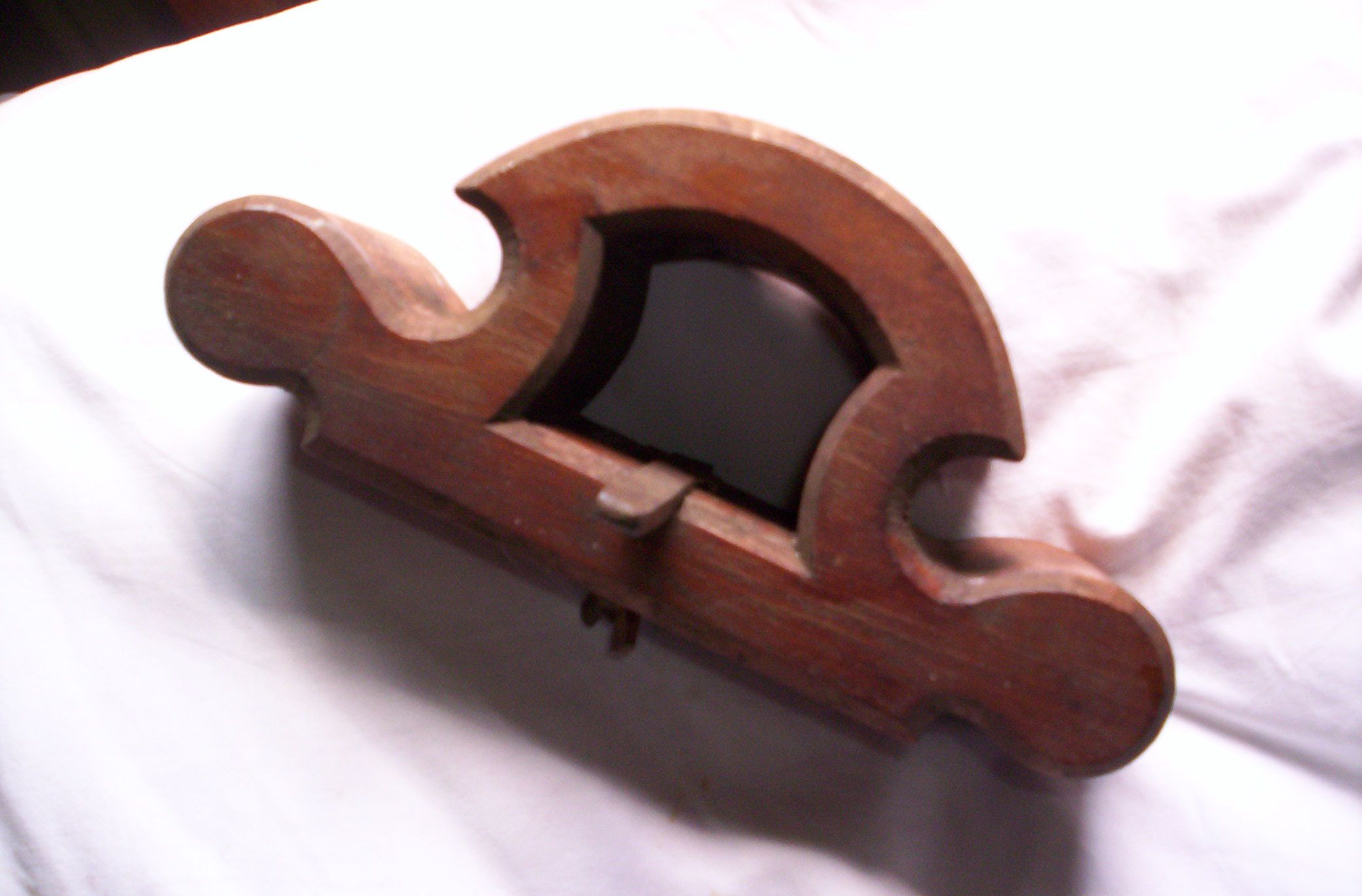 A router plane, which cleans up the bottom of recesses such as shallow mortises and dadoes (housings).